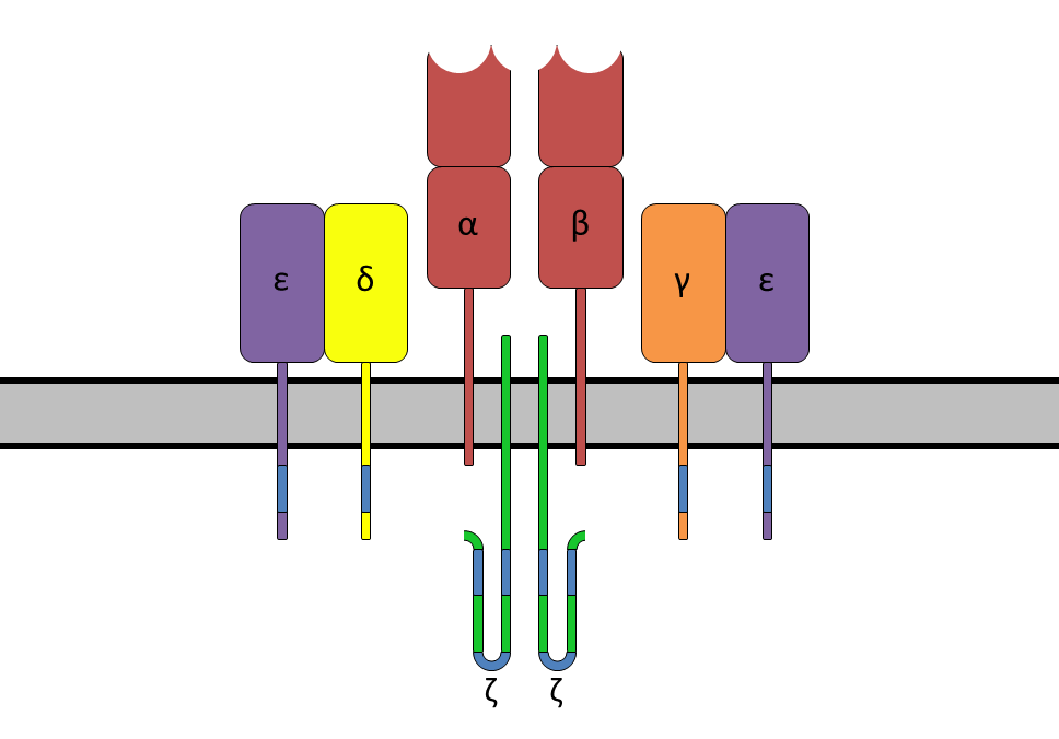 A diagram showing the alpha-beta T cell receptor complex, including associated CD3 proteins. The blue segments are the ITAMs.